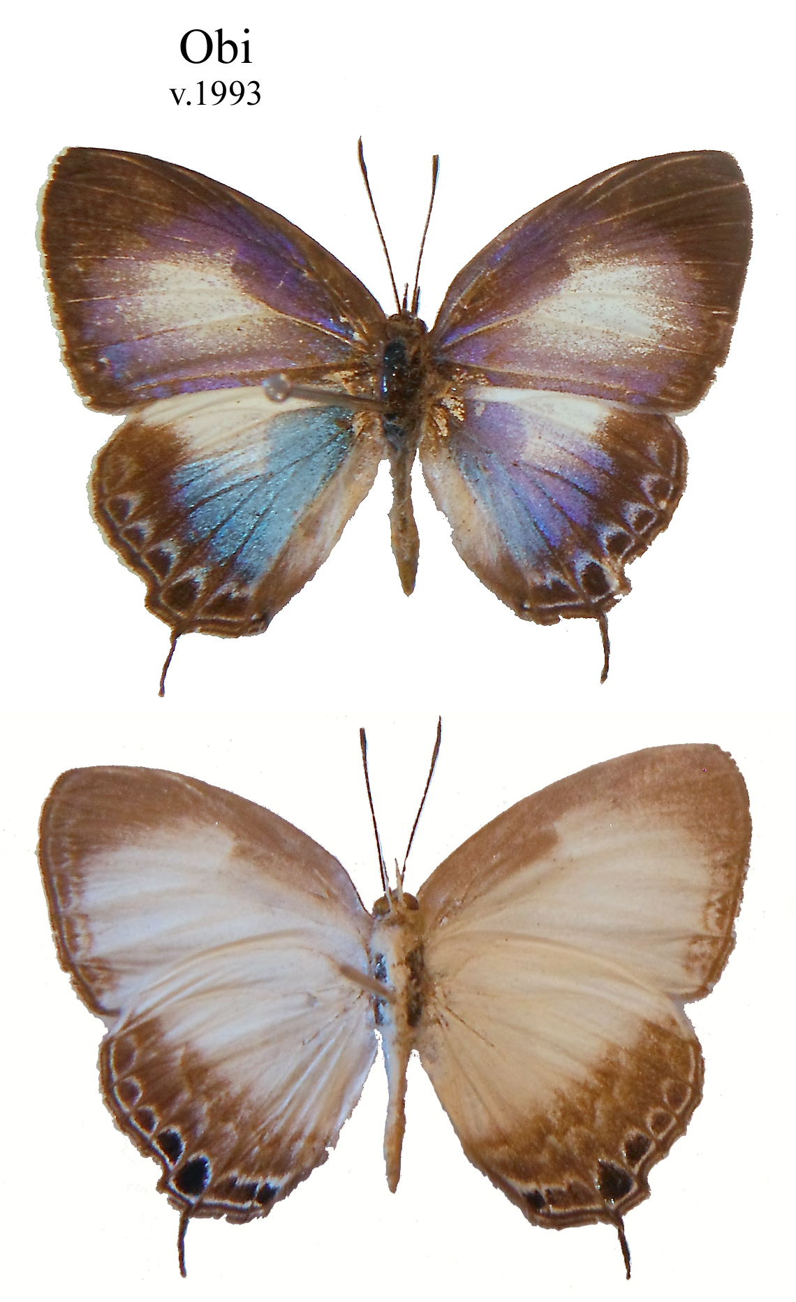 Hypochlorosis lorquinii obiana, male, Indonesia, Maluku, Obi, Alan Cassidy photo.